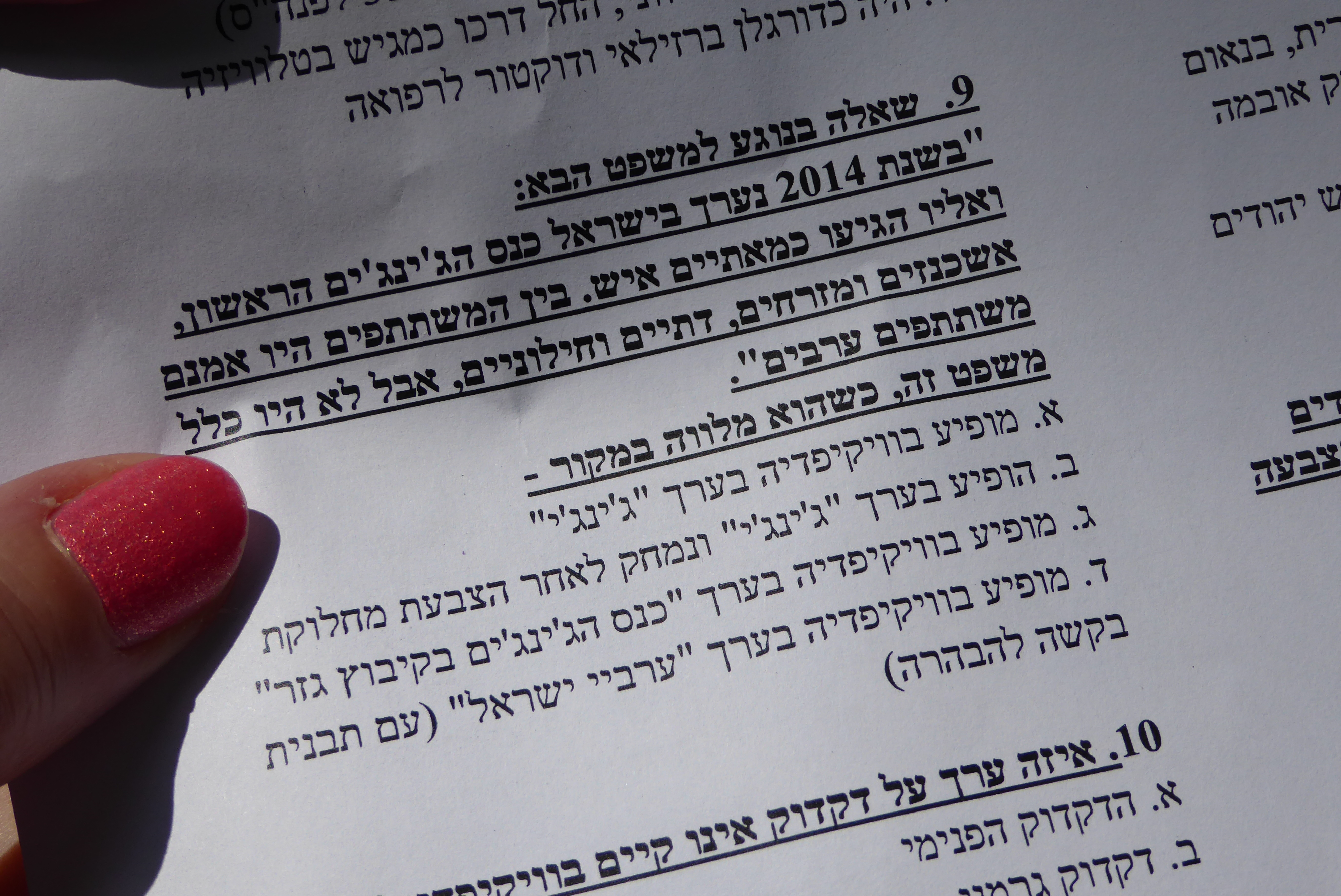 Hebrew Wikipedia annual summer picnic - celebrating 14 years of Hebrew Wikipedia - HaYarkon Park, Tel Aviv, Israel